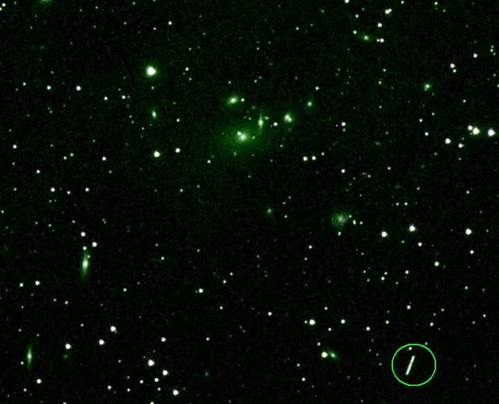 Asteroid Maria passing through a field containing the NGC 700 group of galaxies.